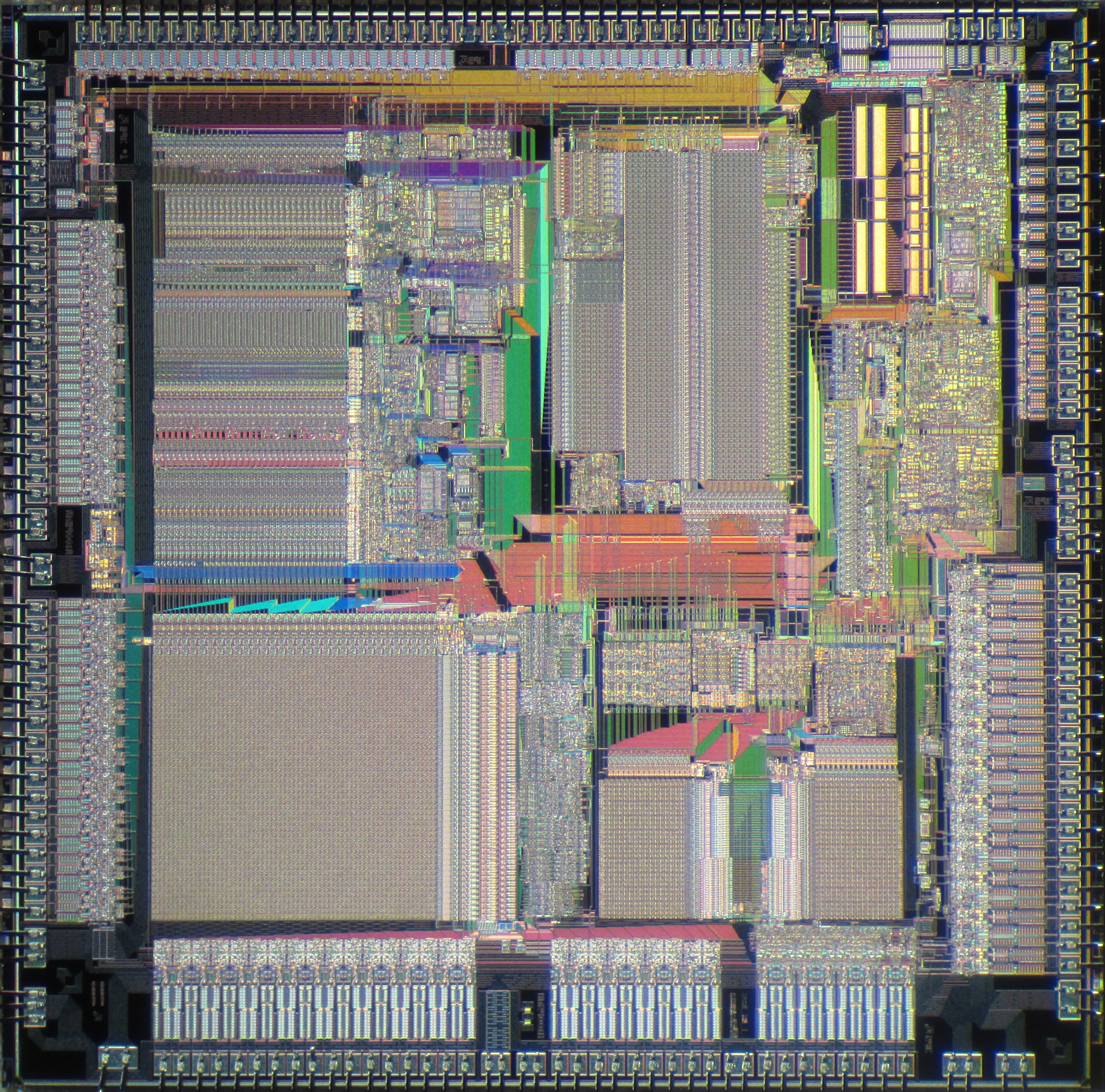 Die shot of AMD Am29000-25GC microprocessor.